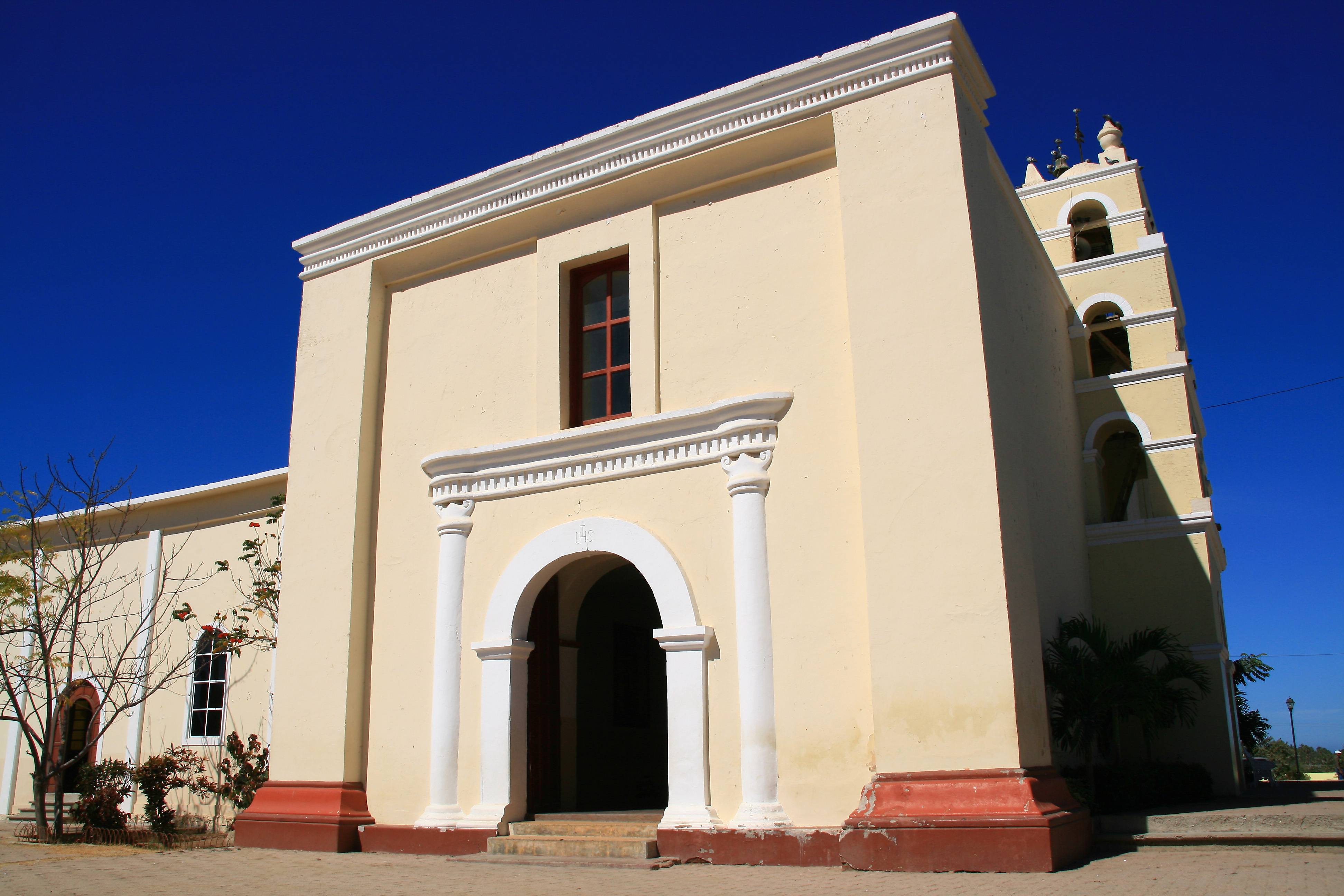 The simple yet elegant church in Todos Santos.